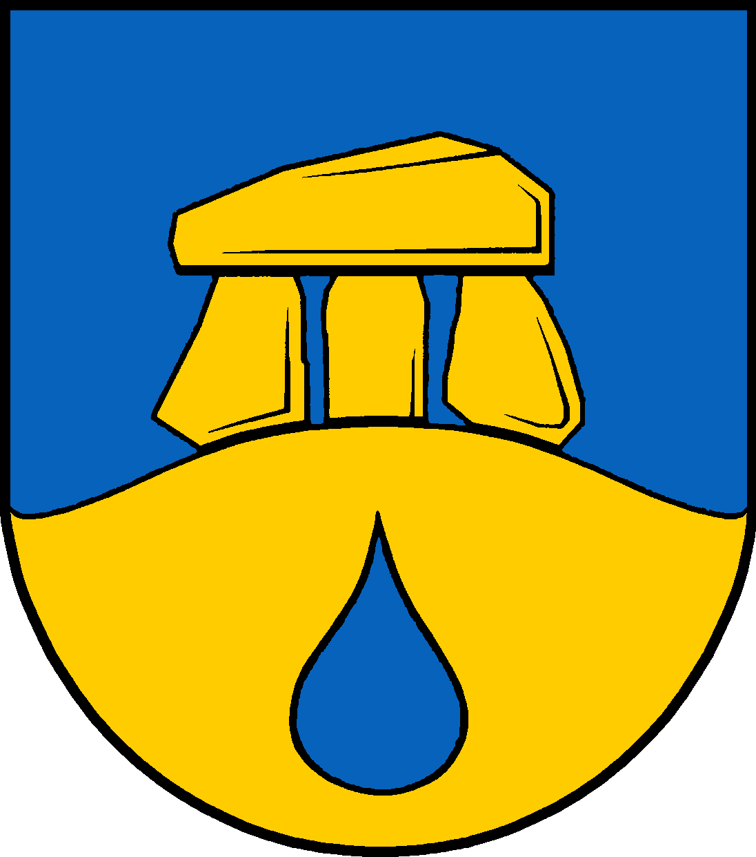 Coat of arms of the municipality Tarbek in Schleswig-Holstein, Germany.